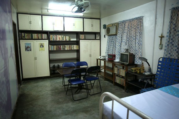 This is where Benigno "Ninoy" Aquino Jr. was detained from August 27, 1973 until his exile to the US in 1980. President Benigno S. Aquino III visited this 4 x 5 meter room of Building No. 2 inside the Legazpi Compound in Fort Bonifacio, Makati. In his visit, the President recalled happy and sad moments during their family visitation hours. (Photo by Gil Nartea/Malacanang Photo Bureau)